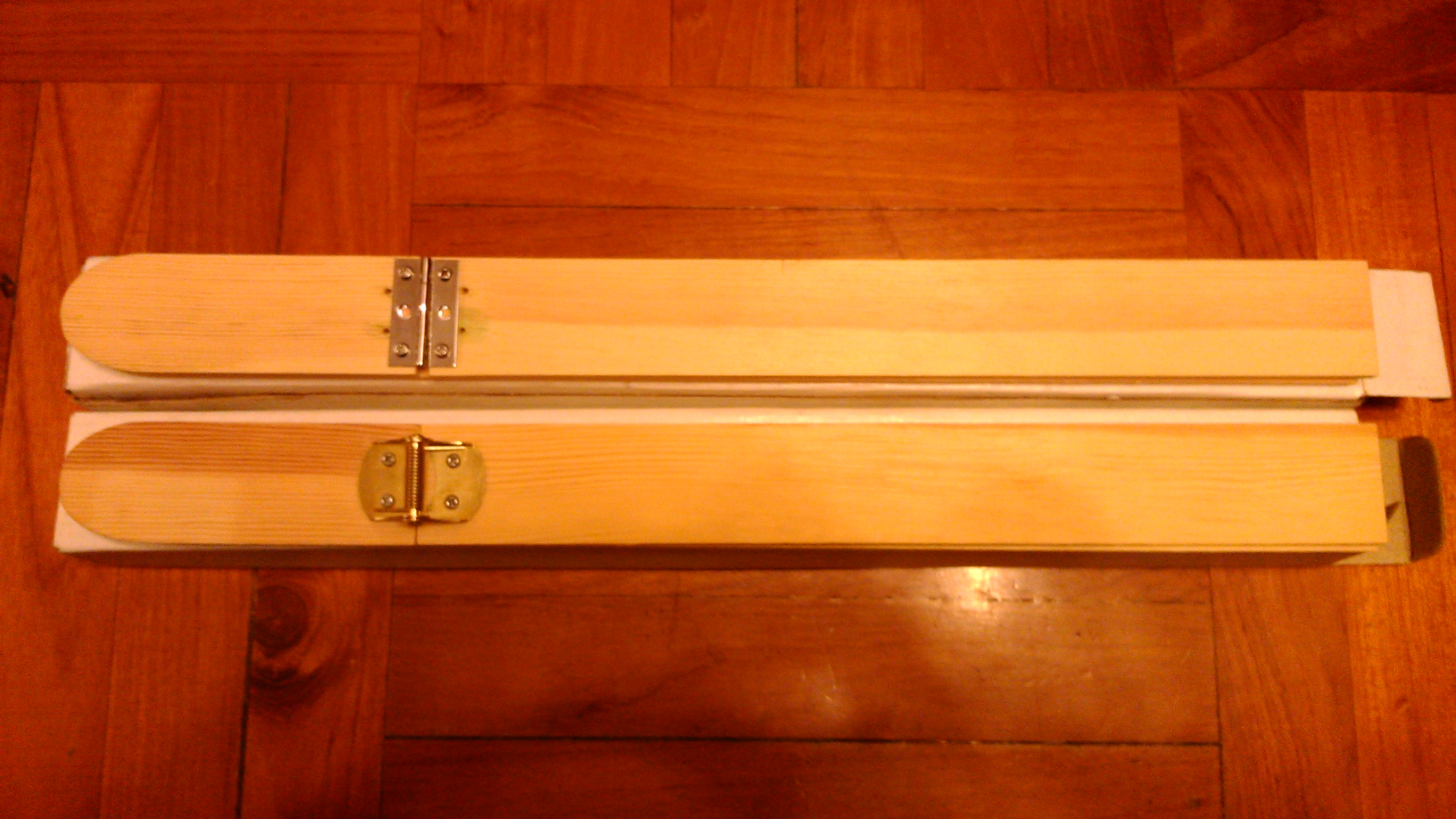 2 Whips with the same outlook but with different hinge. The upper one is transformed into a normal hinge while the lower one is connected with the original spring hinge.